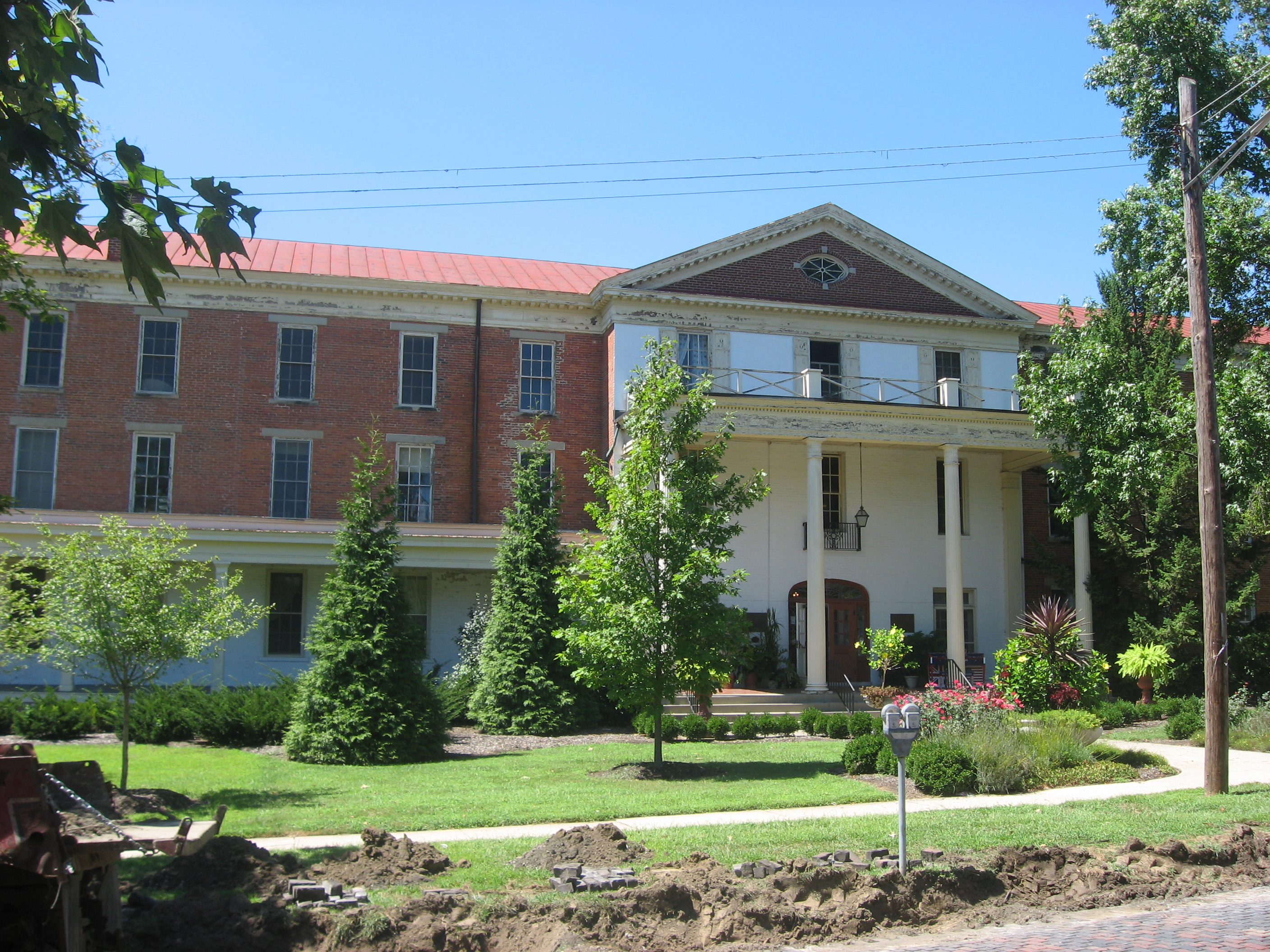 Front of the former Oxford Female Institute building, located on the southwestern corner of the intersection of High Street (U.S. Route 27) and College Avenue in Oxford, Ohio, United States. Built in 1850 as a women's college and later used as a Miami University dormitory, the building has been converted into a community arts center, and it is listed on the National Register of Historic Places.